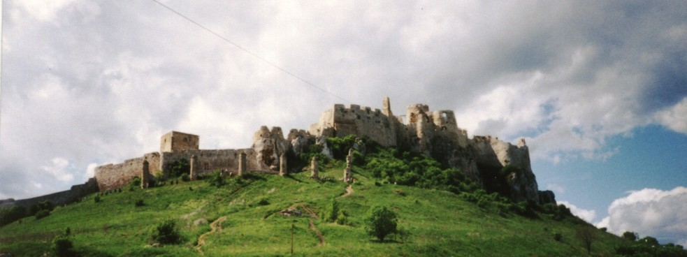 Spis Castle, Spis, Slovakia Author: Slawojar